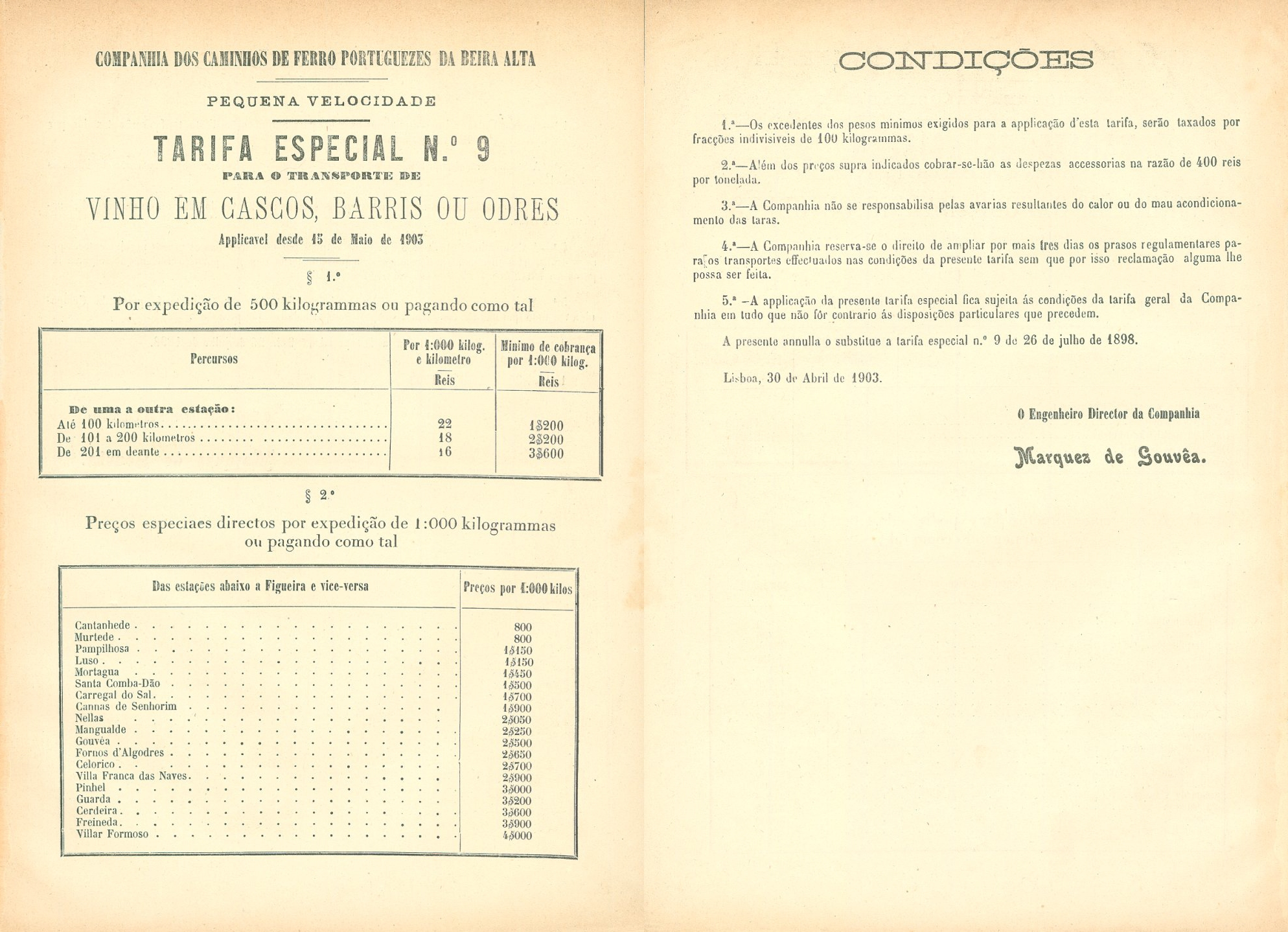 Advertisement of the Companhia dos Caminhos de Ferro Portugueses da Beira Alta (Portuguese Railways of the Beira Alta Company), showing the special tariff n.º 9, for the transport of wine in the Beira Alta Railway. This image was published on the Gazeta dos Caminhos de Ferro magazine No. 370, of 16th May 1903, and scanned by the Hemeroteca Municipal de Lisboa.